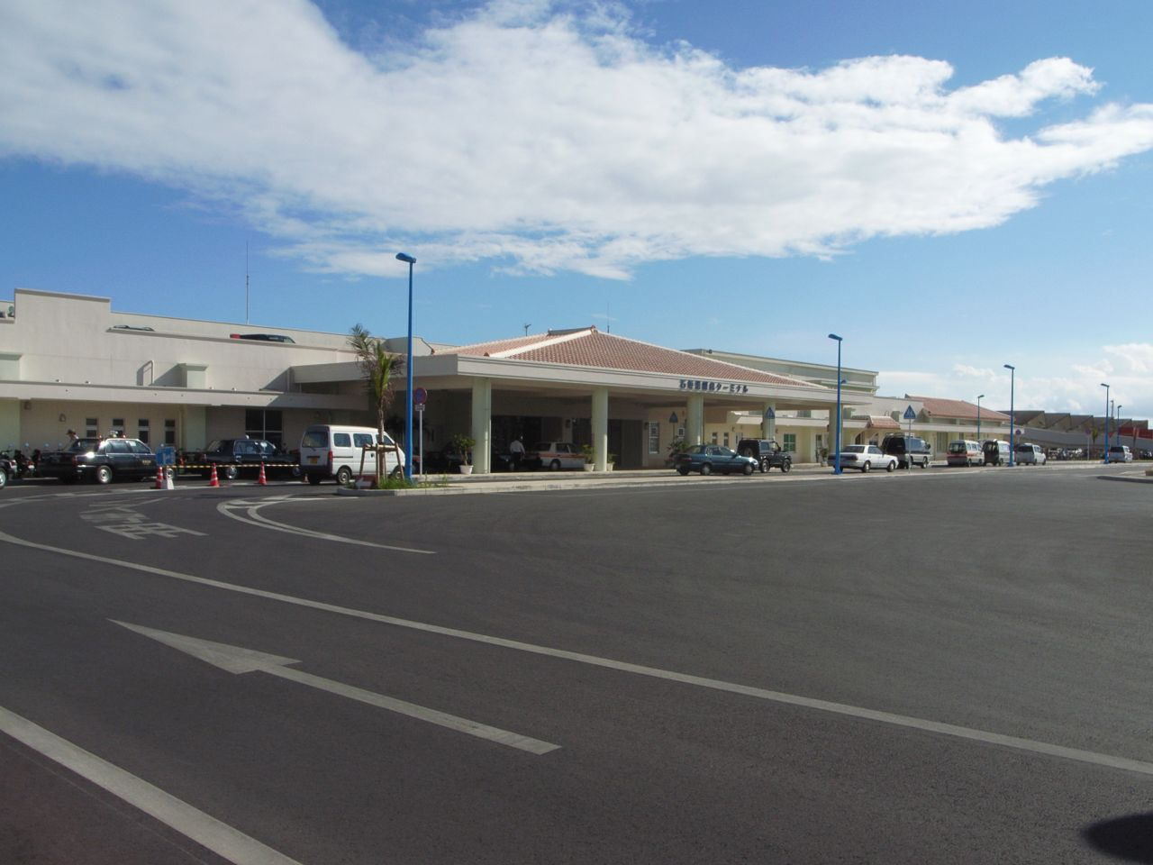 Ishigaki Port Ritoh Terminal, Ishigaki, Okinawa, Japan